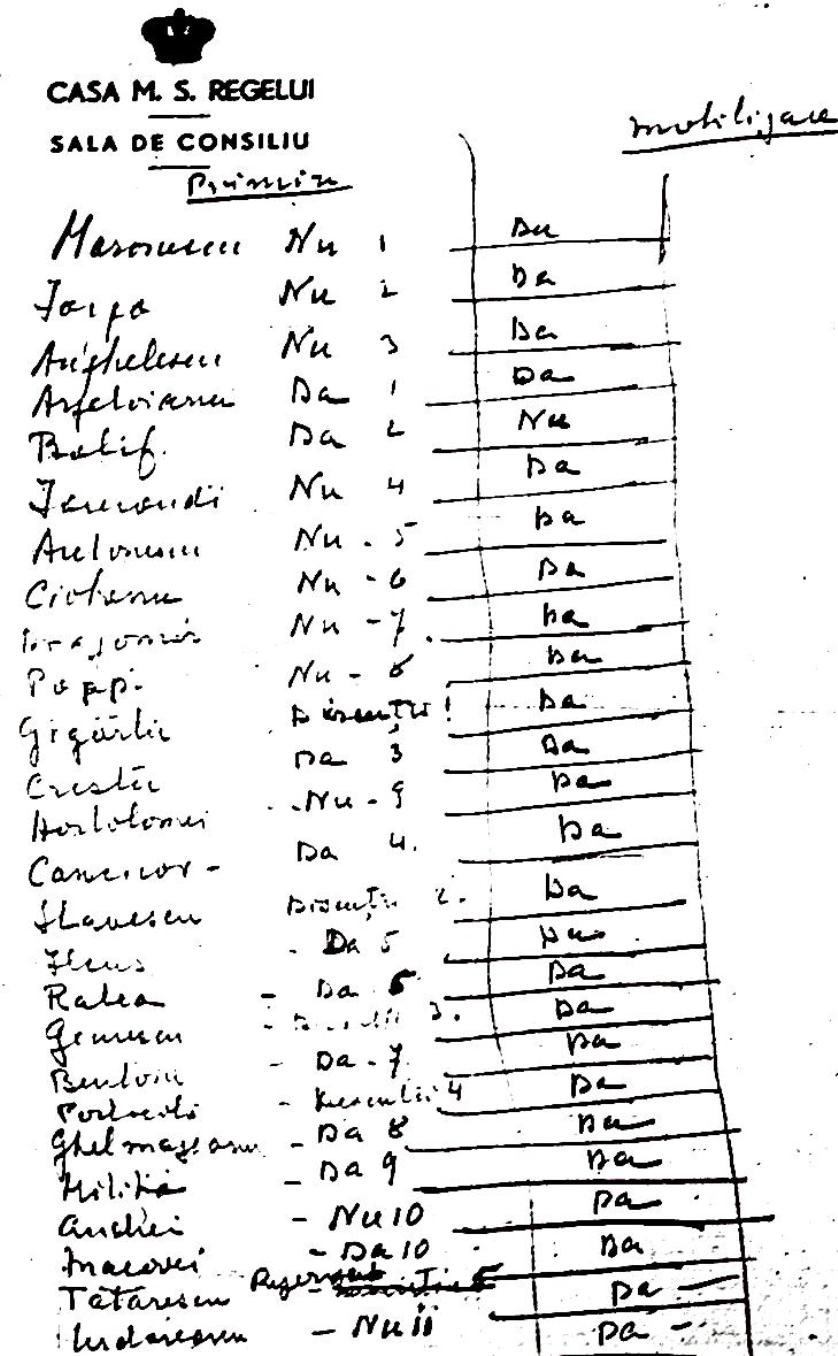 Vote tally of the Romanian Council of Ministers, on the issue of the Soviet ultimatum regarding the cession of Bessarabia (June 27, 1940). Yeas, nays or "Deliberations" on two non-mutually-exclusive columns: Primim ("We accept") and Mobilizare ("Mobilization").From top: Gheorghe Mironescu (N Y), Nicolae Iorga (N Y), Constantin Angelescu (N Y), Constantin Argetoianu (Y Y), General Ernest Ballif (Y N), Victor Antonescu (N Y), Ștefan Ciobanu (N Y), Silviu Dragomir (N Y), Traian Pop (N Y), Ion Gigurtu (Deliberations Y), Ioan Christu (Y Y), Nicolae Hortolomei (N Y), Mircea Cancicov (Y Y), Victor Slăvescu (Deliberations Y), Ioan Ilcuș (Y N), Mihai Ralea (Y Y), Constantin C. Giurescu (Deliberations Y), Aurelian Bentoiu (Y Y), Radu Portocală (Deliberations Y), Mihail Ghelmegeanu (Y N), Mitiță Constantinescu (Y Y), Petre Andrei (N Y), Ion Macovei (Y Y), Gheorghe Tătărescu (Abs. Y), Ernest Urdăreanu (N Y).